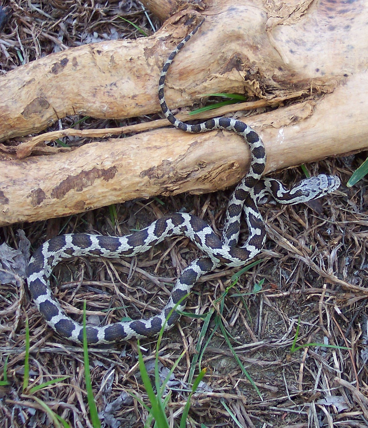 juvenile eastern ratsnake on ground